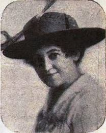 American actress and screenwriter Emma Bell Clifton (1874 – 1922), often credited as Emma Bell, on page 15 of the December 1915 Movie Pictorial.